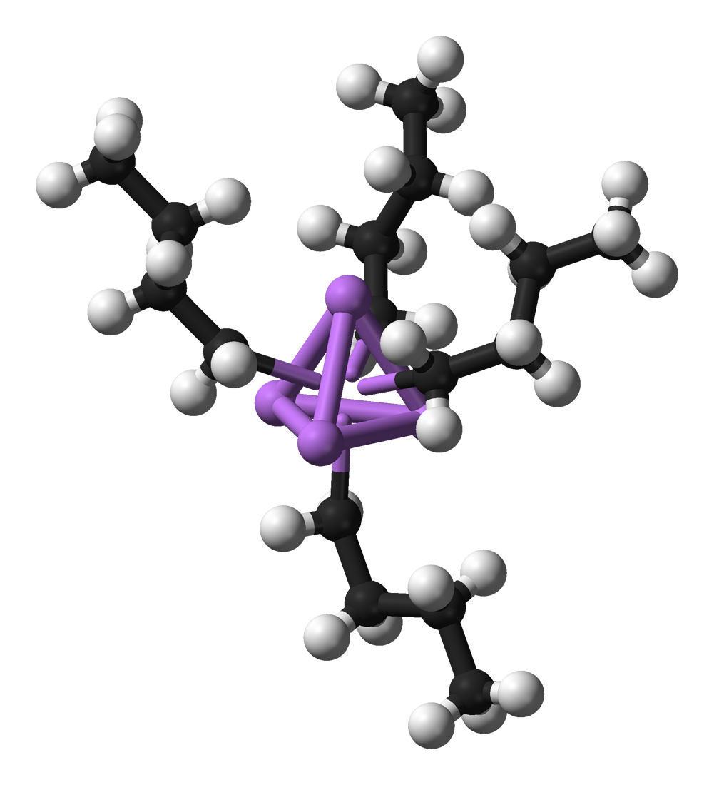 N-butyllithium tetramer 3D balls